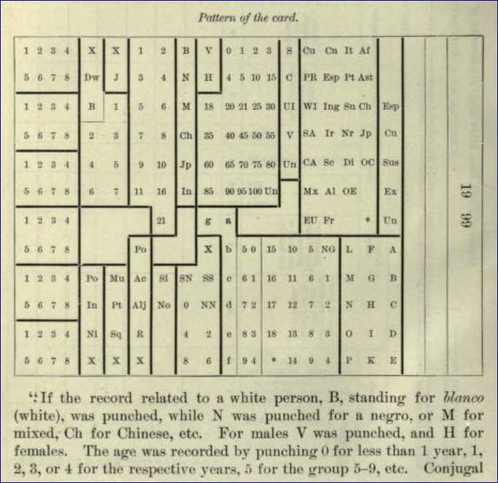 Census punch card for electric tabulated census of Puerto Rico in 1899 by the U.S.